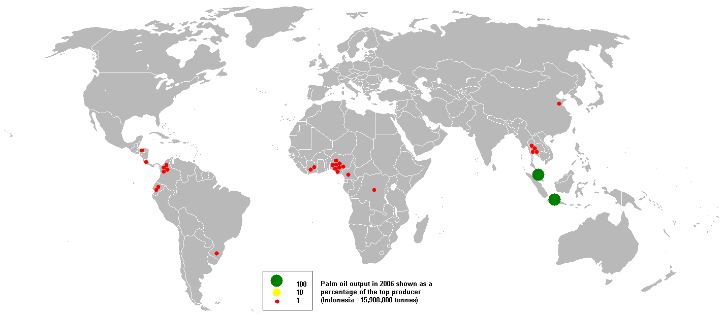 This bubble map shows the global distribution of palm oil output in 2006 as a percentage of the top producer (Indonesia - 15,900,000 tonnes). This map is consistent with incomplete set of data too as long as the top producer is known. It resolves the accessibility issues faced by colour-coded maps that may not be properly rendered in old computer screens. Based on :Image:BlankMap-World.png